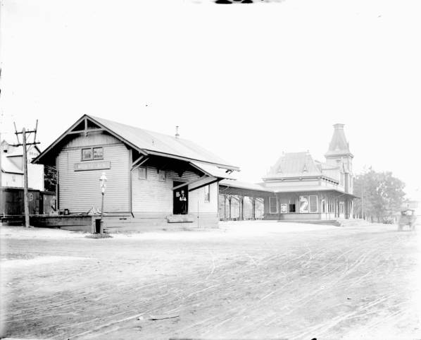 A view of the former Montclair Station on the New York and Greenwood Lake Railroad subsidiary of the Erie Railroad facing the original station depot and freight house.